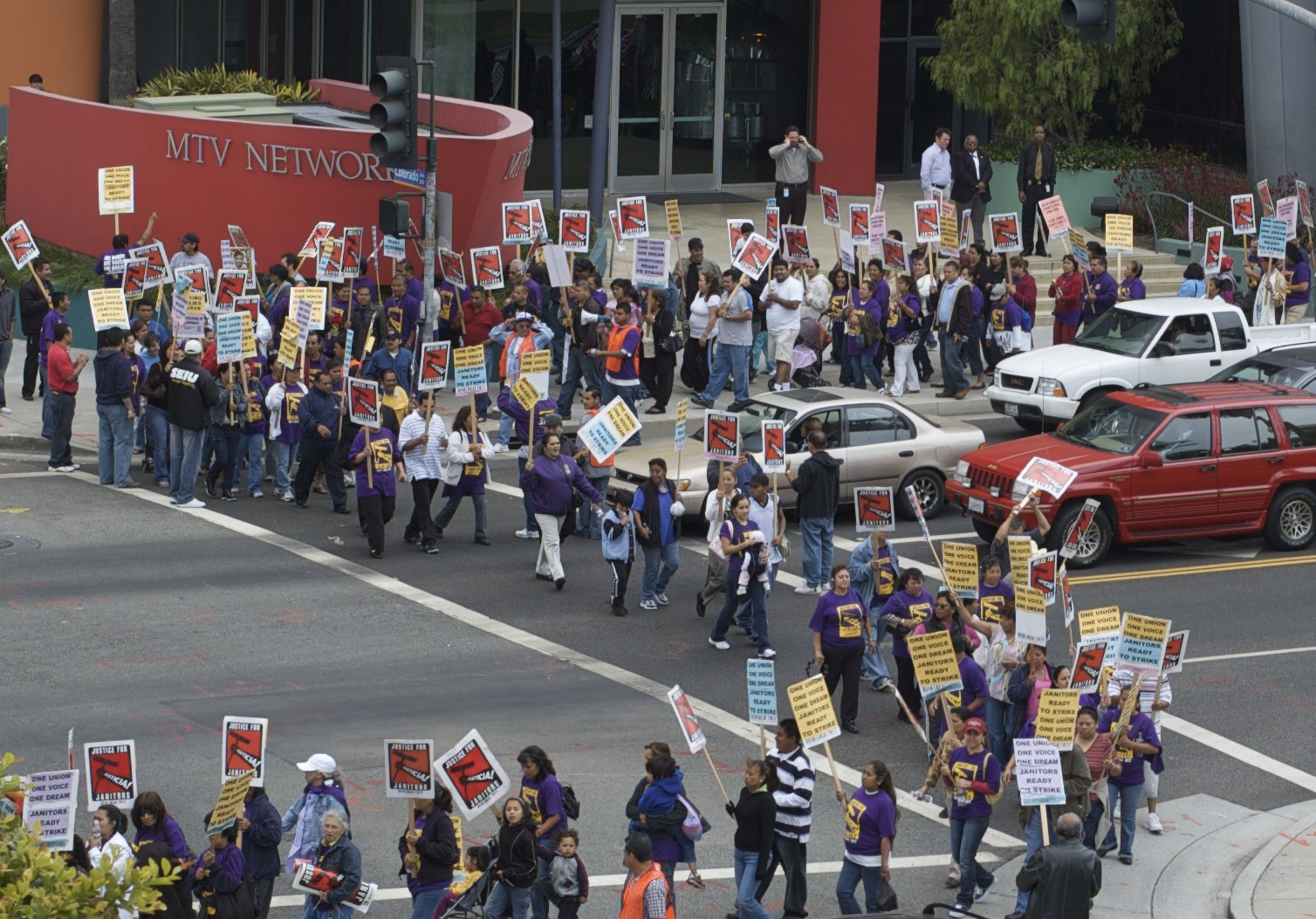 Janitorial workers are threatening to strike in Santa Monica. They started out at MTV and marched past RPA today.